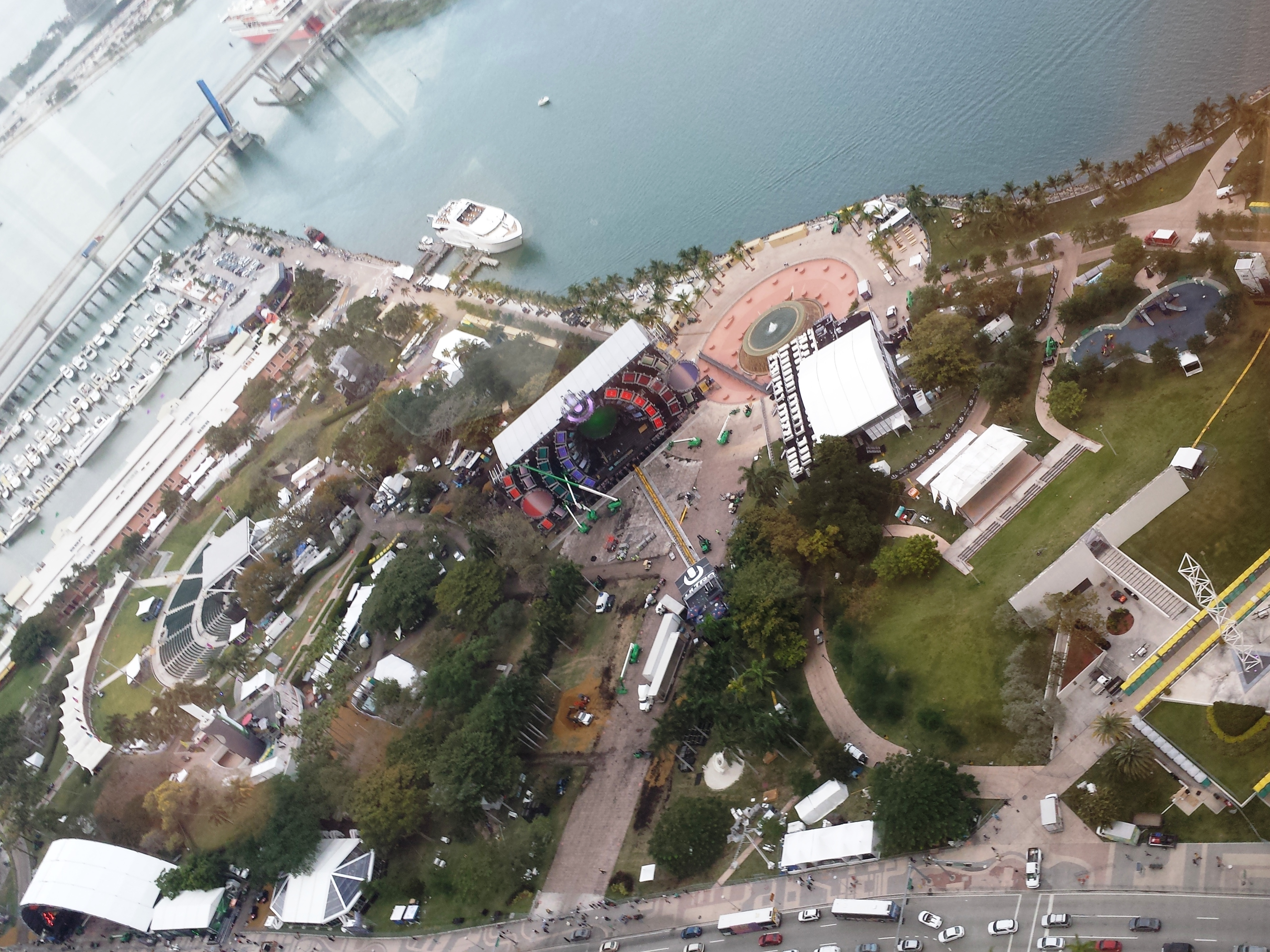 Bayfront Park during the 2014 Ultra Music Festival in Miami, Florida